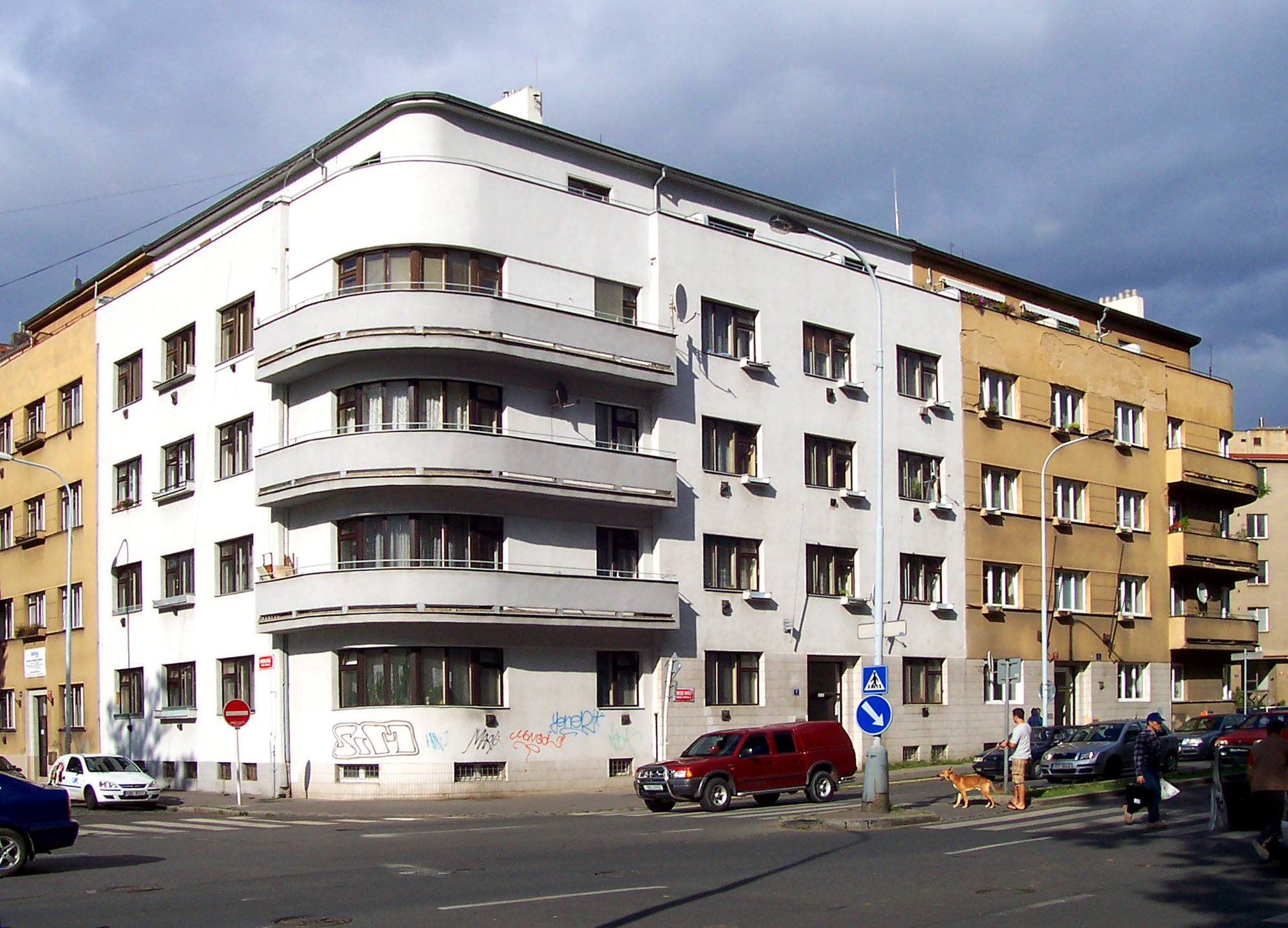 Houses at Dvorecké square at Podolí, Prague